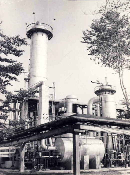 the Viromet chemical plant in Victoria, Romania